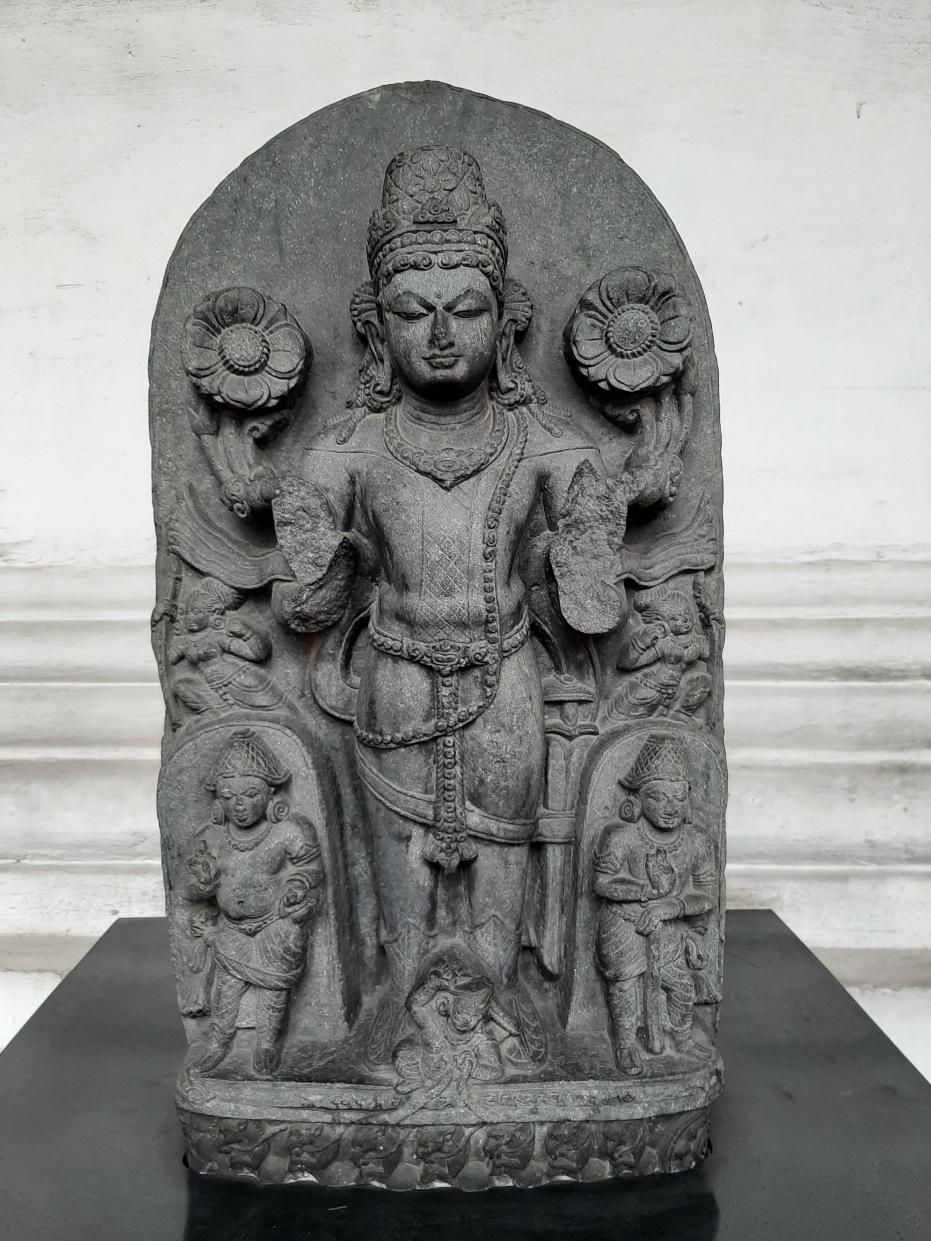 A 10th century basalt statue of Surya, Hindu sun God. The statue is from Bihar and is in display at the Indian Museum, Kolkata.